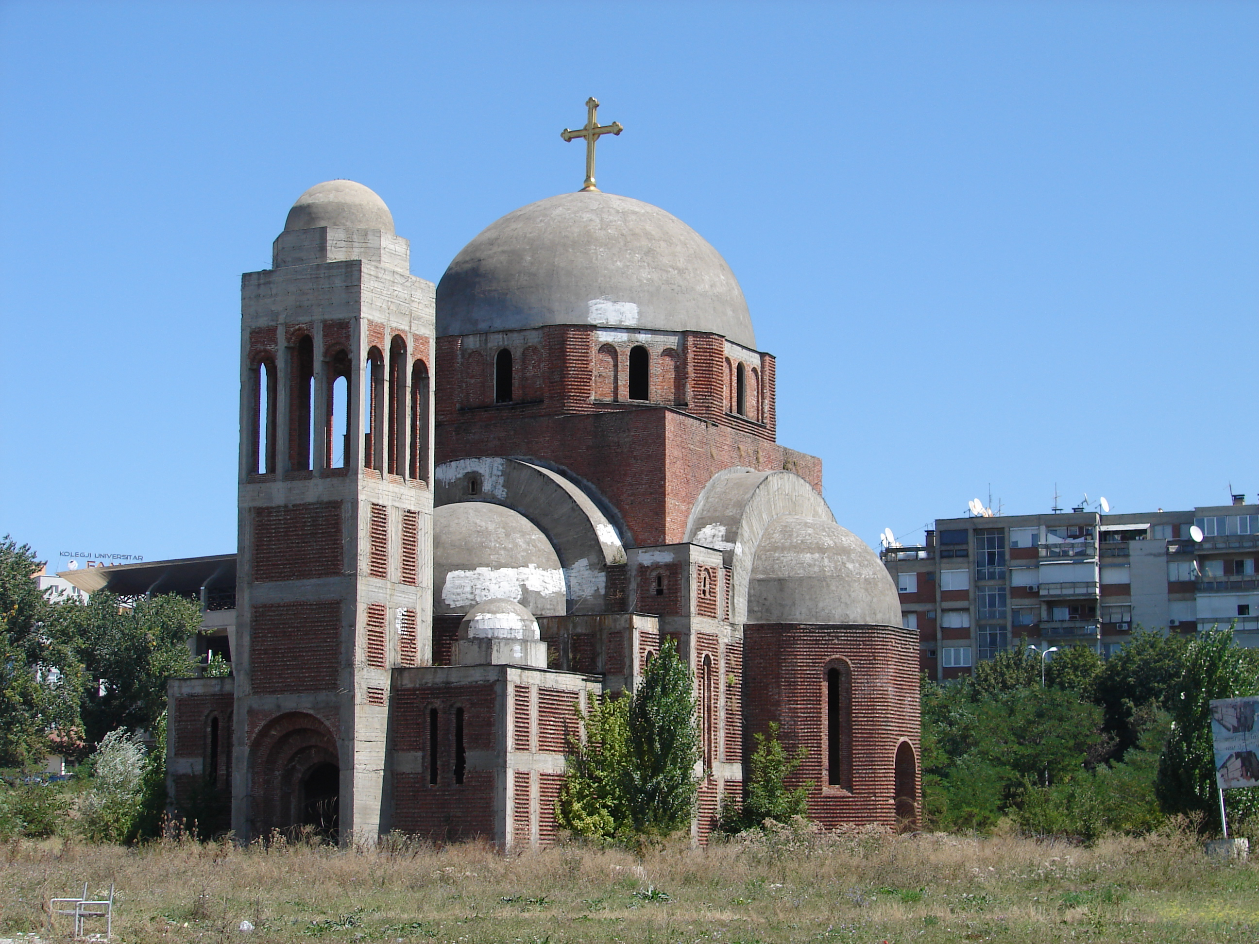 The unfinished Serbian Orthodox Christ the Saviour Cathedral in Priština, Kosovo